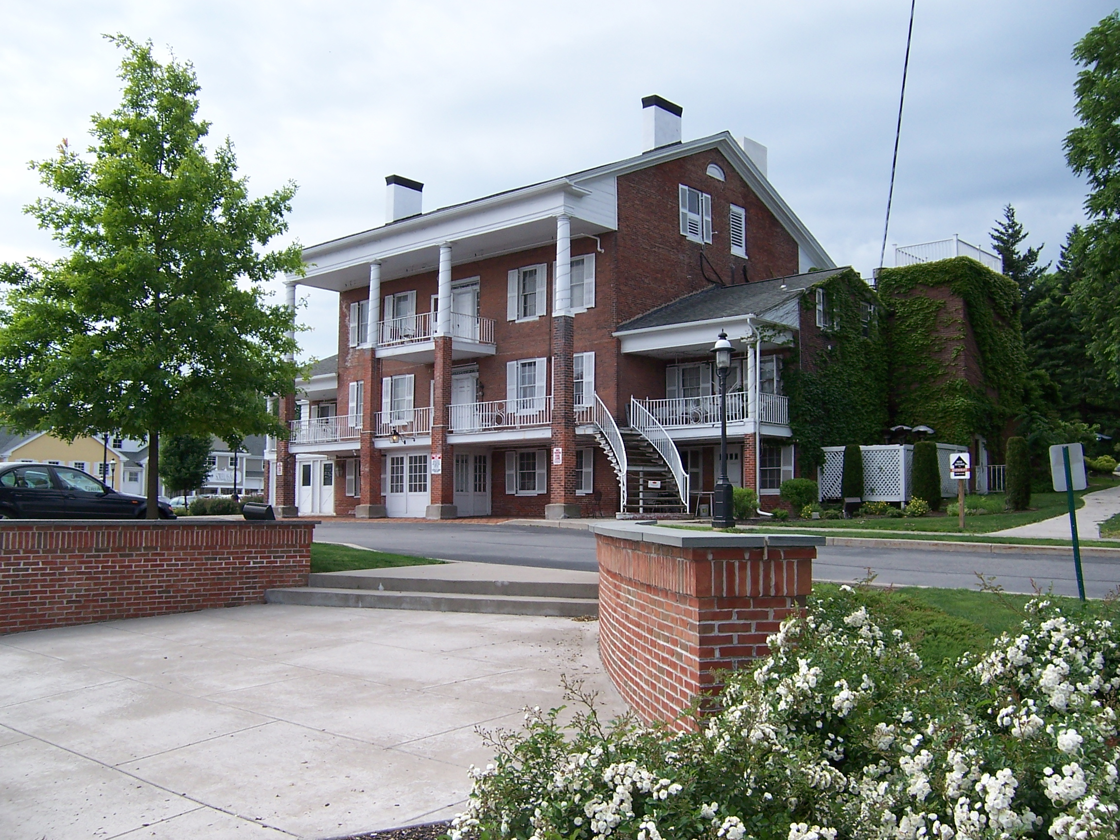 The Spring House in the town of Pittsford, New York. Listed on the National Register of Historic Places, it currently serves as a restaurant on busy Monroe Avenue (State Route 31).